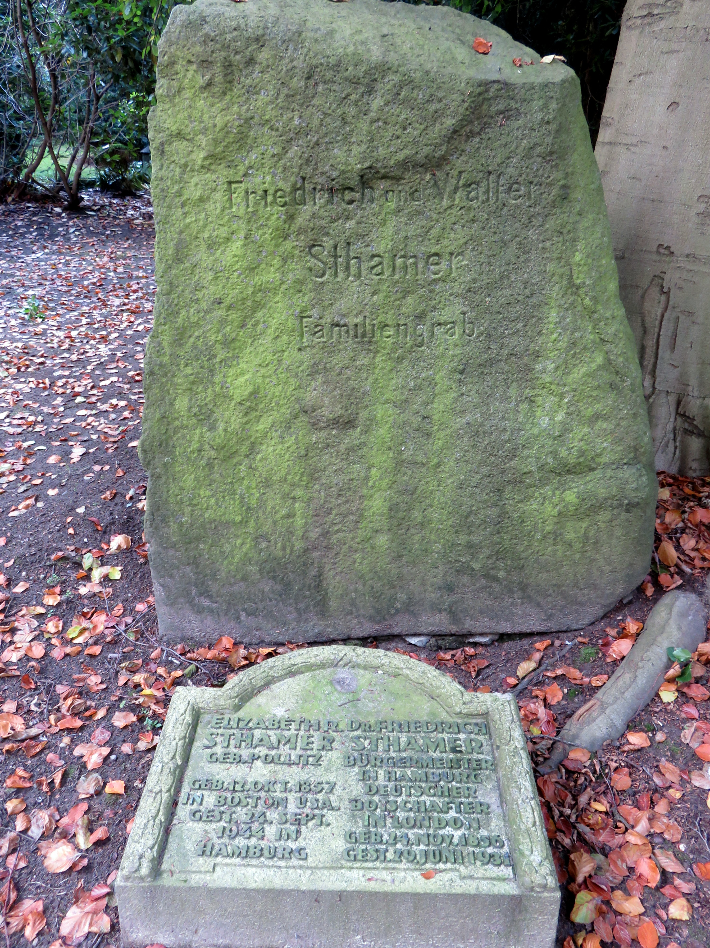 Grave- and memorial stone for Hamburg lawyer, mayor and ambassador Friedrich Sthamer, Hamburg Ohlsdorf Cemetery.